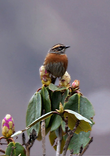 Rufous-breasted Accentor Prunella strophiata in Kullu District of Himachal Pradesh, India.